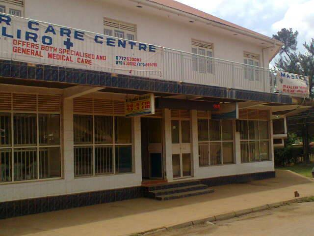 Radio Buddu Masaka downtown